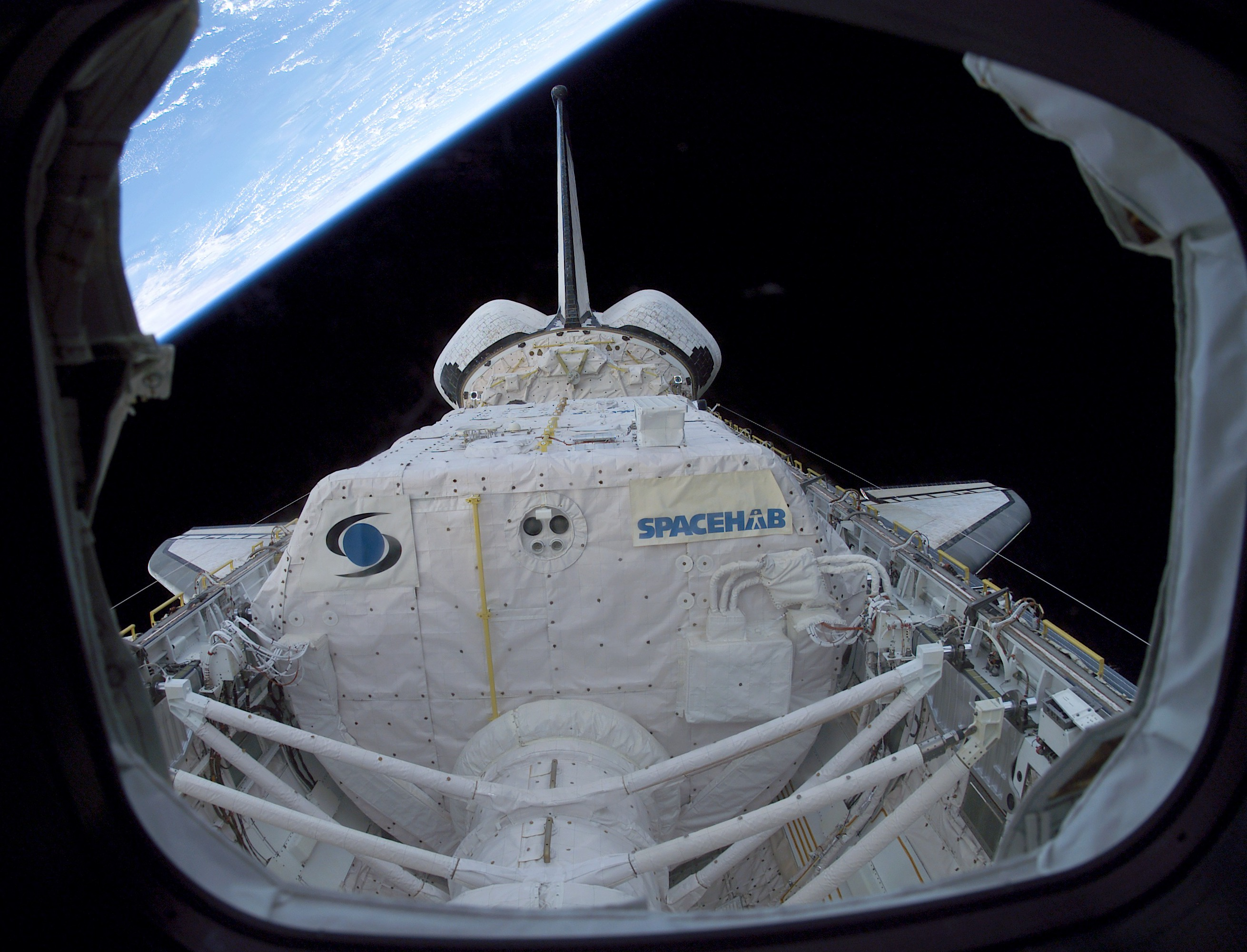 STS107-E-05359 (22 January 2003) --- SPACEHAB Research Double Module as seen from Columbia's aft flight deck.